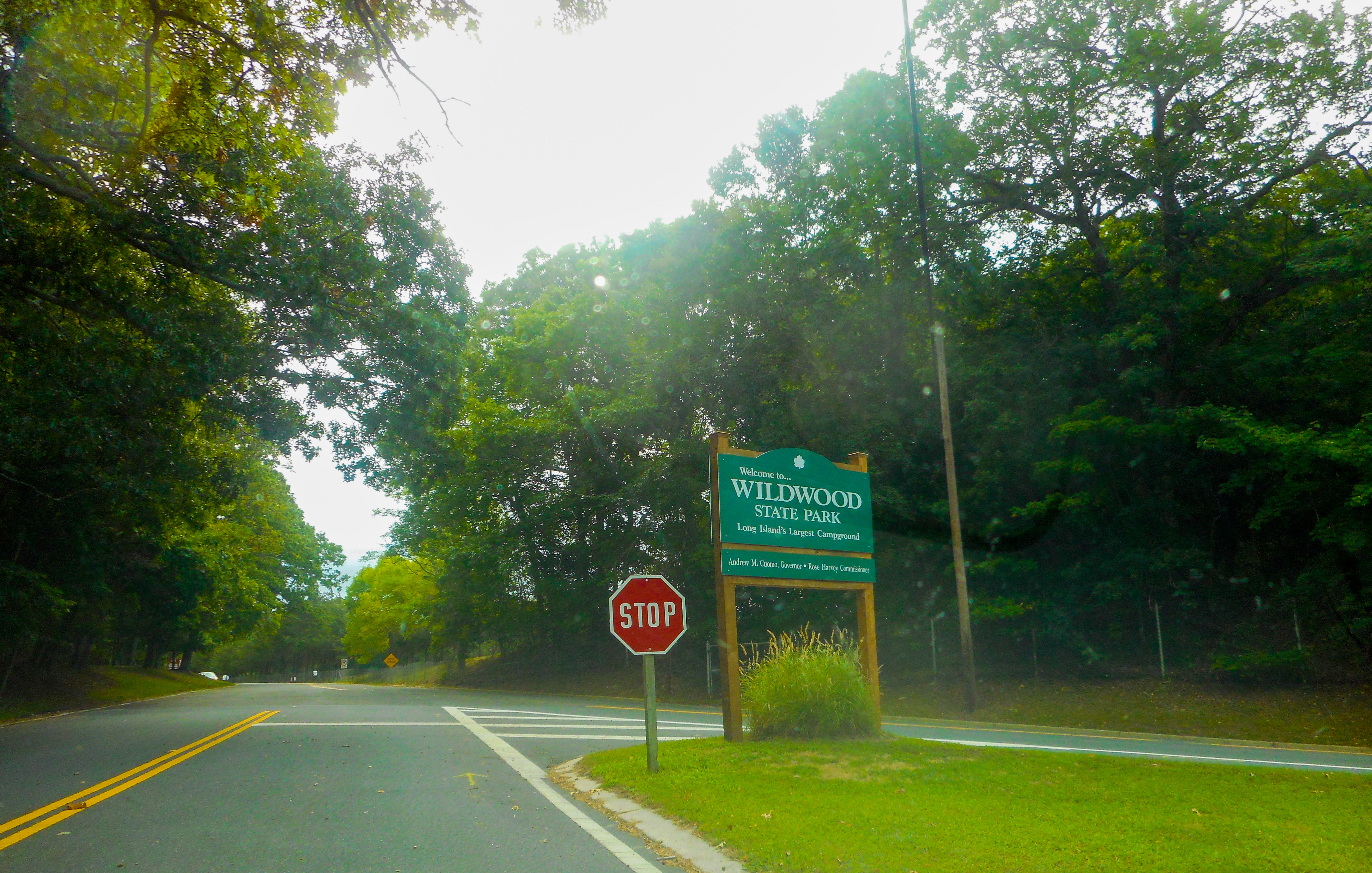 The Wye at Wildwood State Park in Wading River, New York, where the two entrances from North Wading River Road and Hulse Landing Road (Suffolk CR 54) converge. This shot is from the entrance from North Wading River Road. Believe it or not, if you follow Google Maps (and probably some maps before the early 20th Century), North Wading River Road continues beyond this point through the intersection of the maintenance yard and the camping trailer park, then down past the picnic area and Parking Field #1, and finally down a hill to the beach on the Long Island Sound, where a refreshment stand can be found.